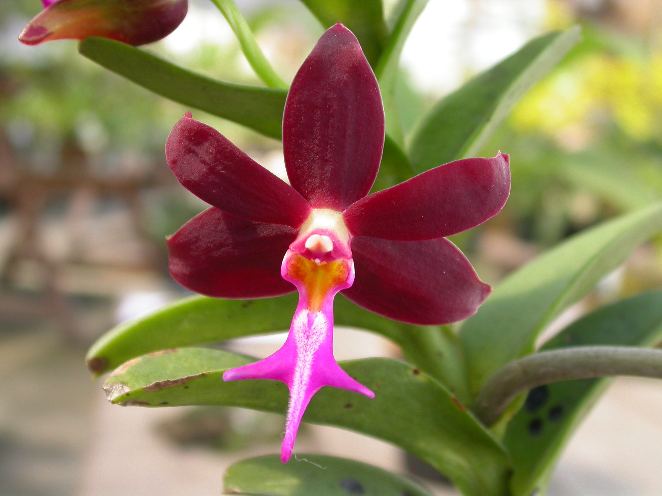 Trichoglottis atropurpurea